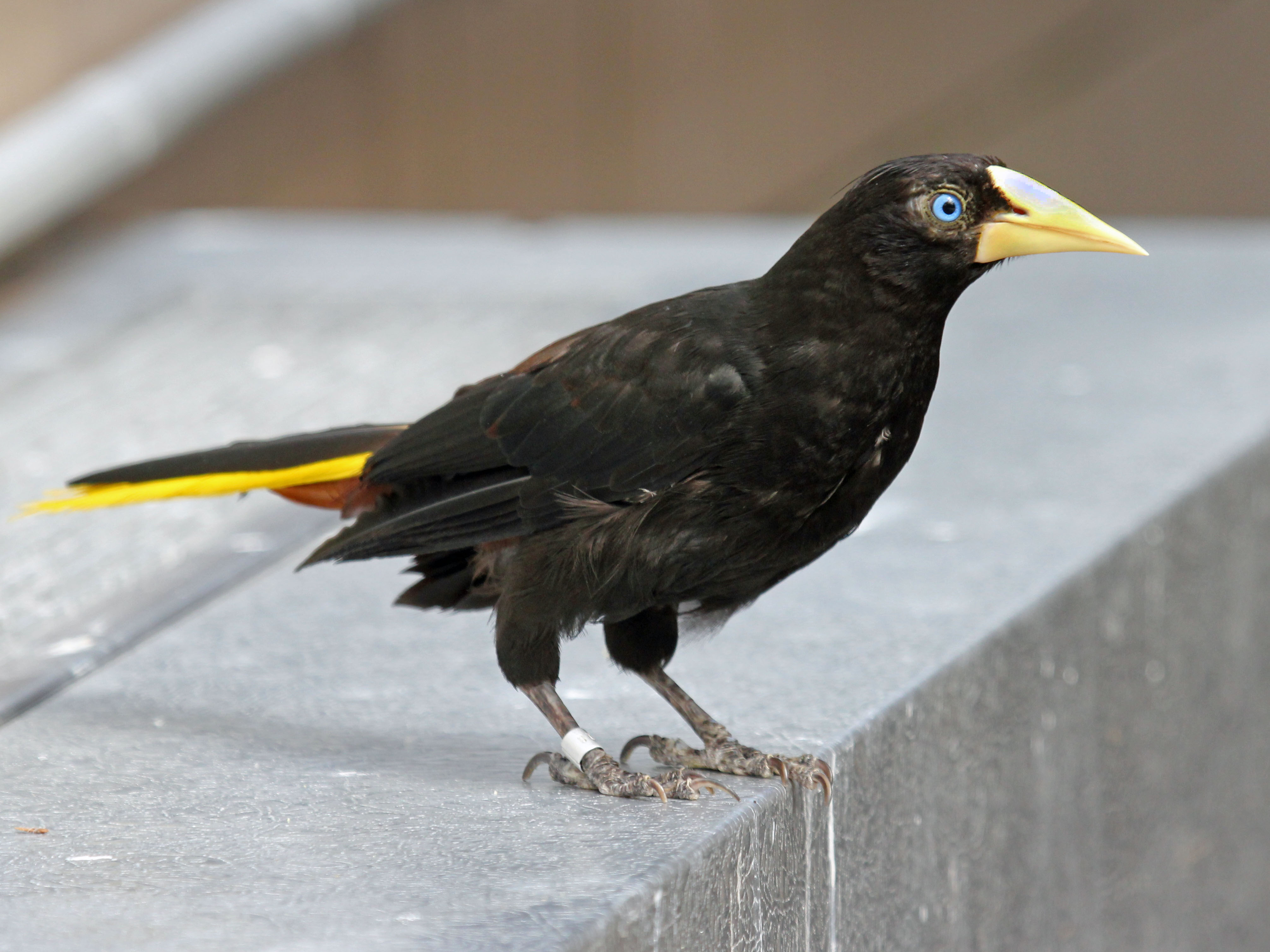 Crested Oropendola (Psarocolius decumanus) - National Aviary in Pittsburgh, Pennsylvania.